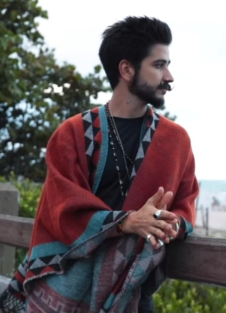 Camilo Echeverry in 2018